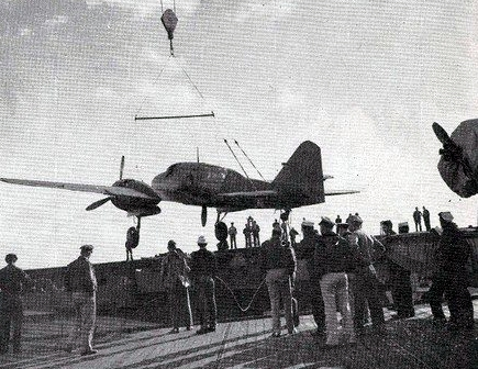 A captured Japanese Mitsubishi Ki-46 (Allied codeame "Dinah") is loaded aboard the U.S. Navy escort carrier USS Attu (CVE-102), in 1944.